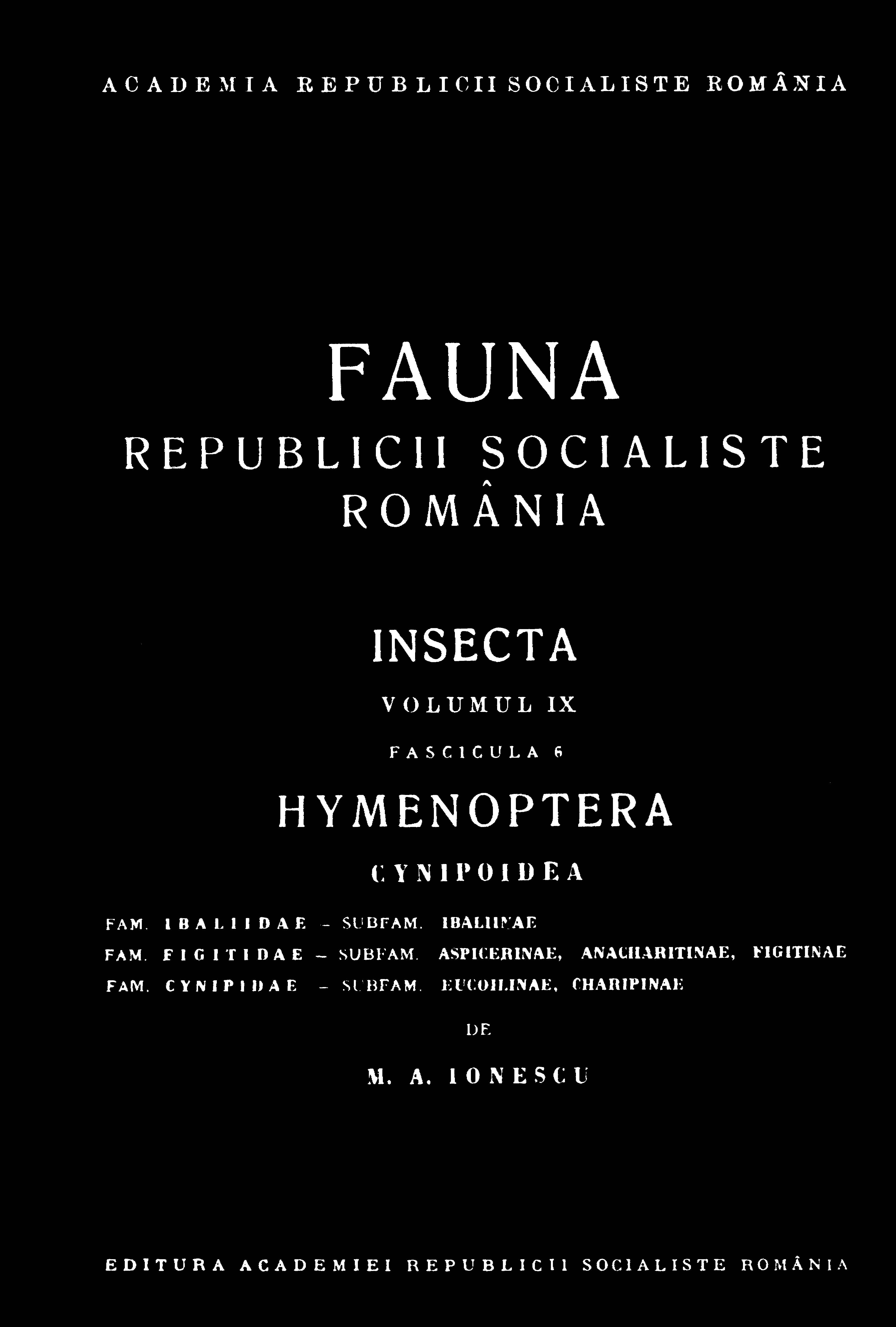 Fauna Republicii Socialiste România (book)